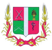 Coats of arms of Tokmatskyj district